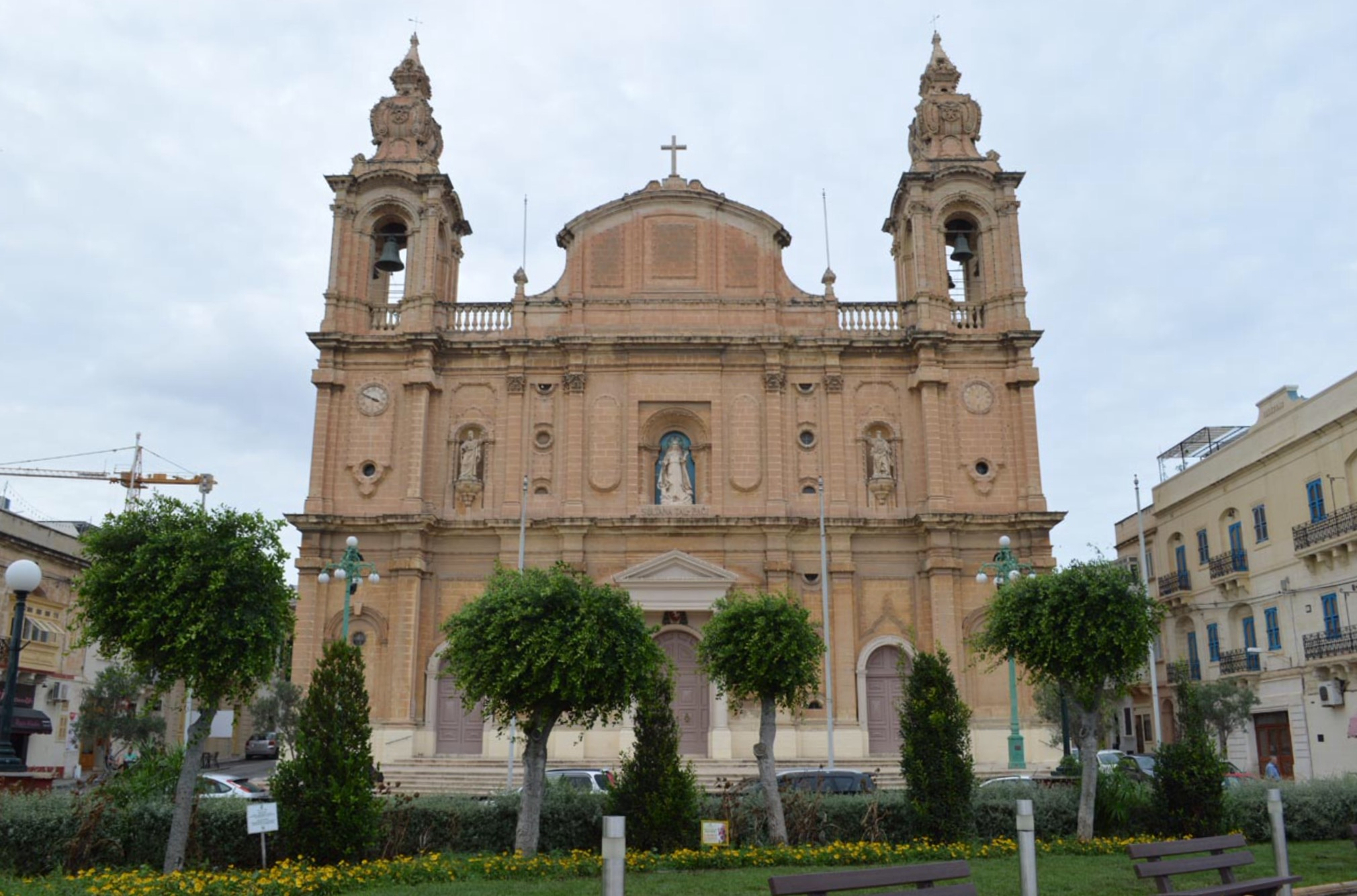 St Joseph Parish Church This media is about Maltese cultural property with inventory number 00016.